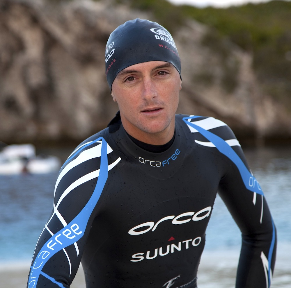 William Trubridge portrait by Paolo Valenti